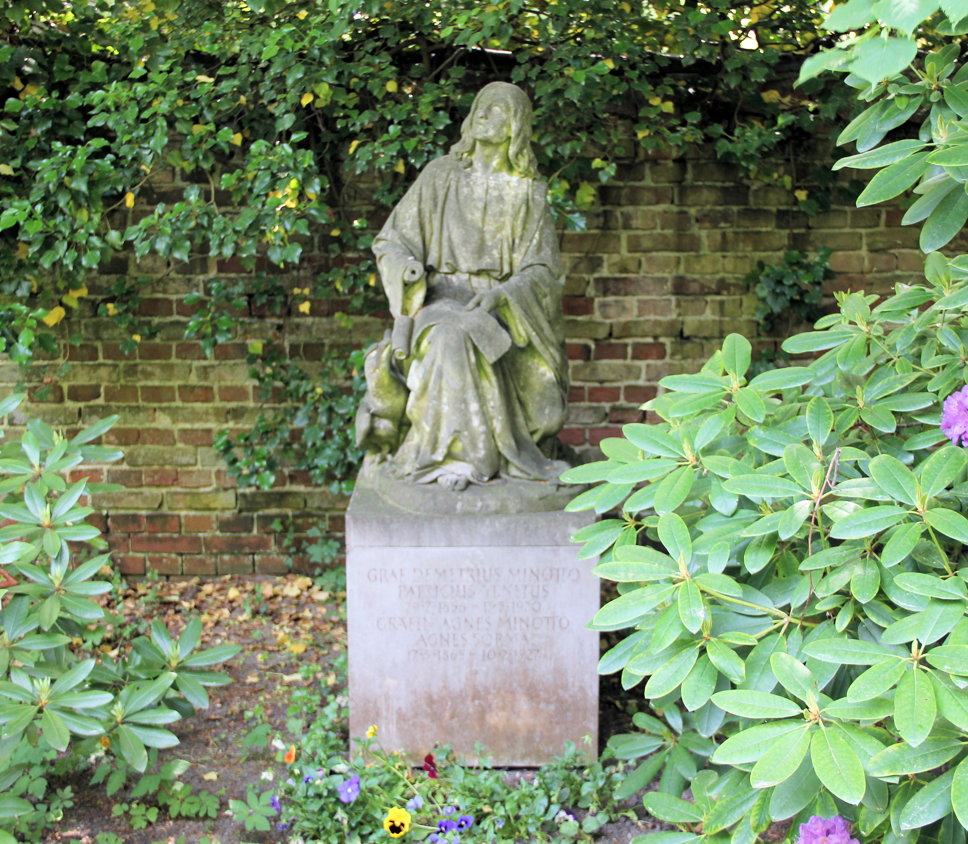 "Ehrengrab" (grave of honor), Agnes Sorma, Lindenstraße 1, Berlin-Wannsee, Germany Koordinate:52°25′31″N 13°9′12″E / 52.42528°N 13.15333°E